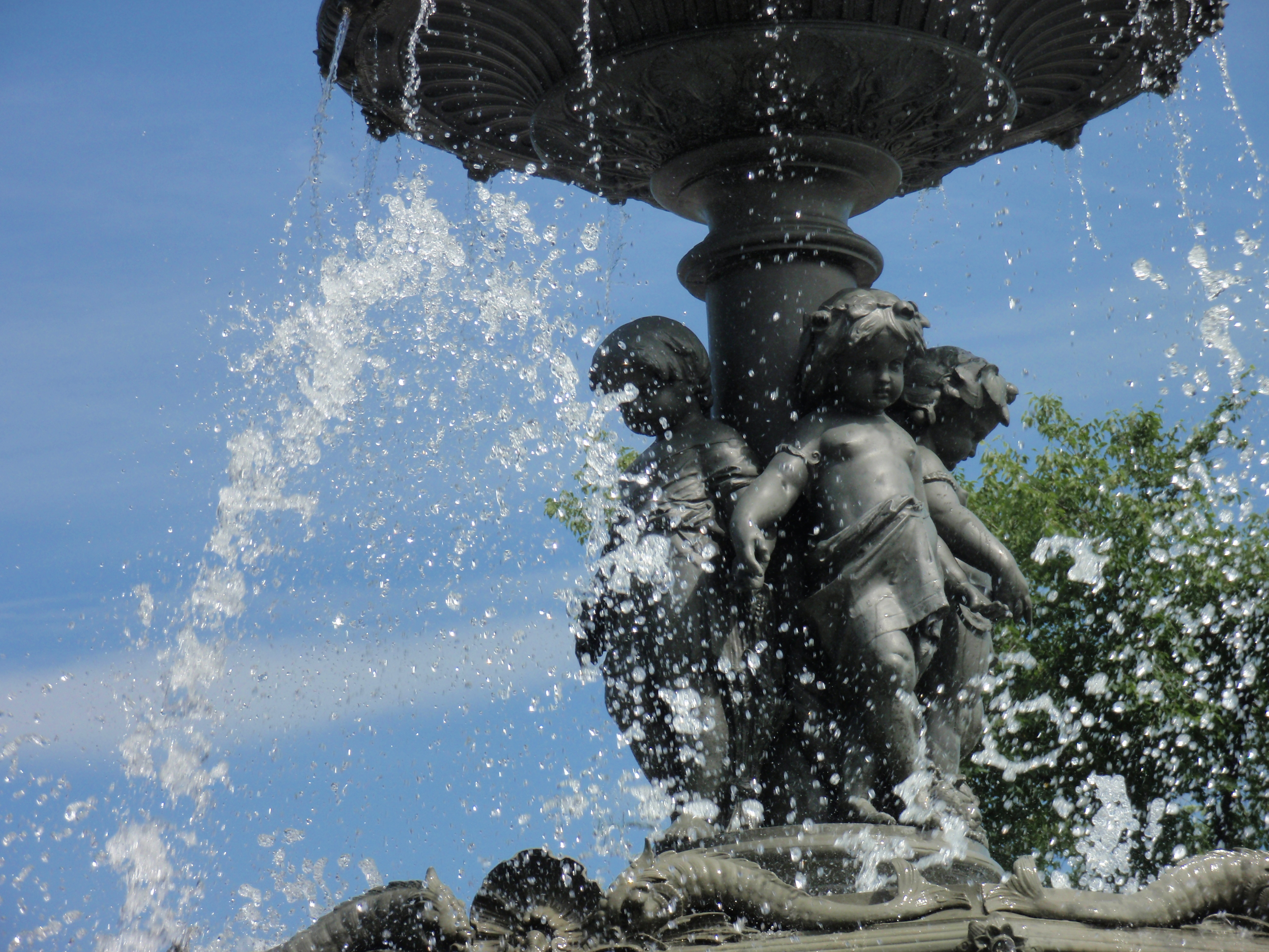 Fontaine de Tourny in Quebec City